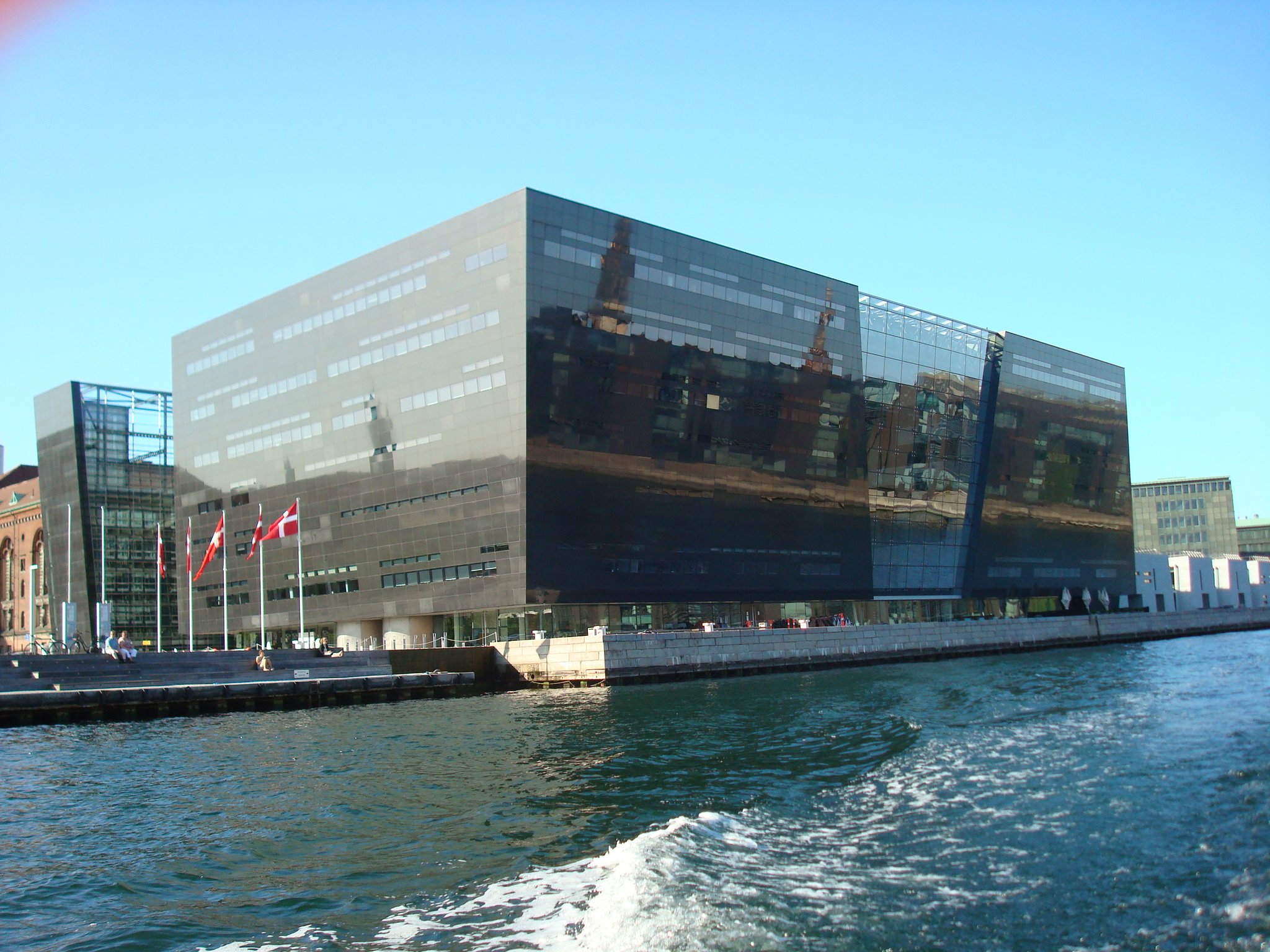 Danish Royal Library